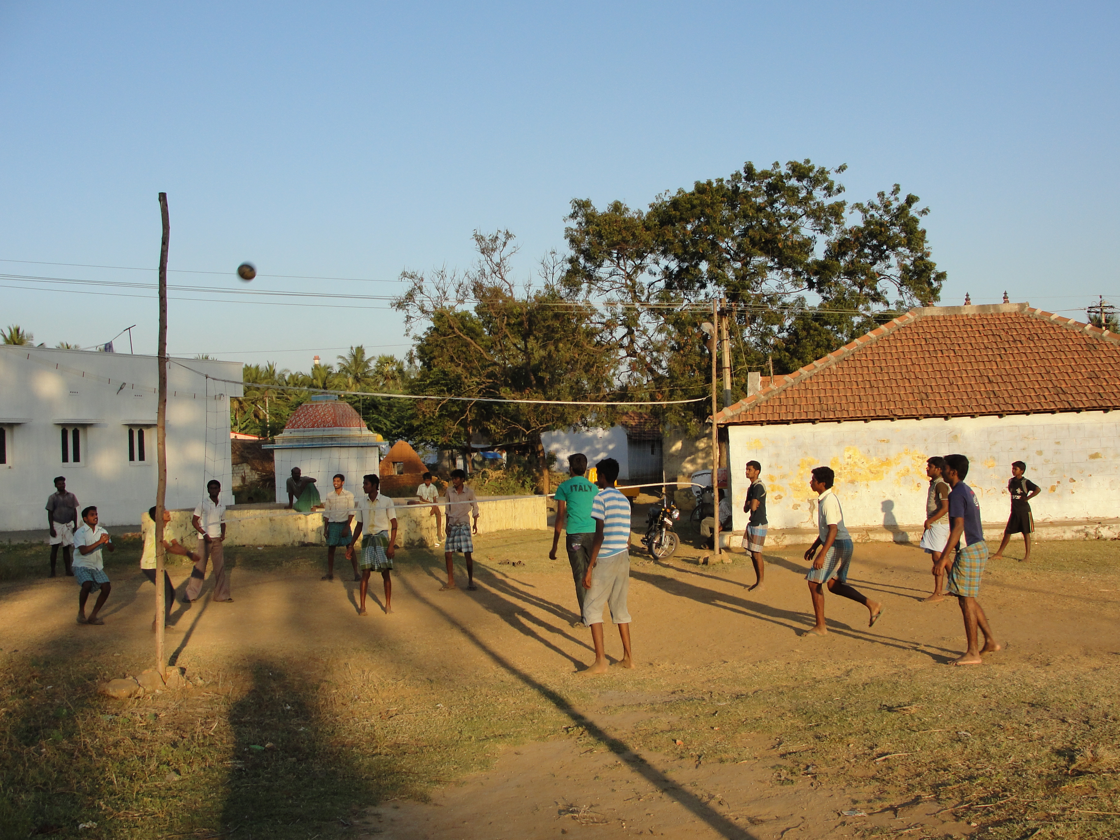 A scene of Volleyball play in Ervadi village, Mettur Taluk, Salem District, Tamil Nadu, India.